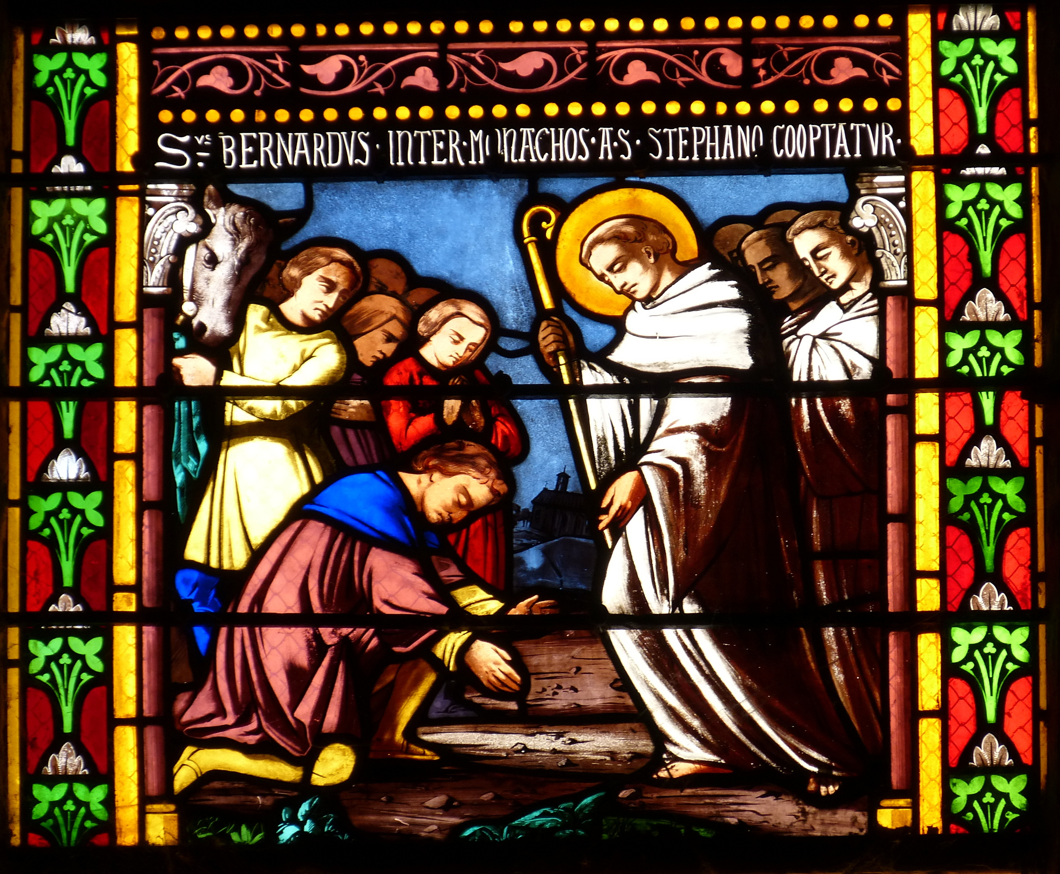 Sarlat-la -Canéda ( Dordogne ). Saint-Sacerdos de Sarlat cathedral - Stained glass window dedicated to Saint Bernard of Clairvaux ( detail ): Stephan Harding. abbot of Citeaux abbey, accepts Bernard in his monastery ( 1112 )